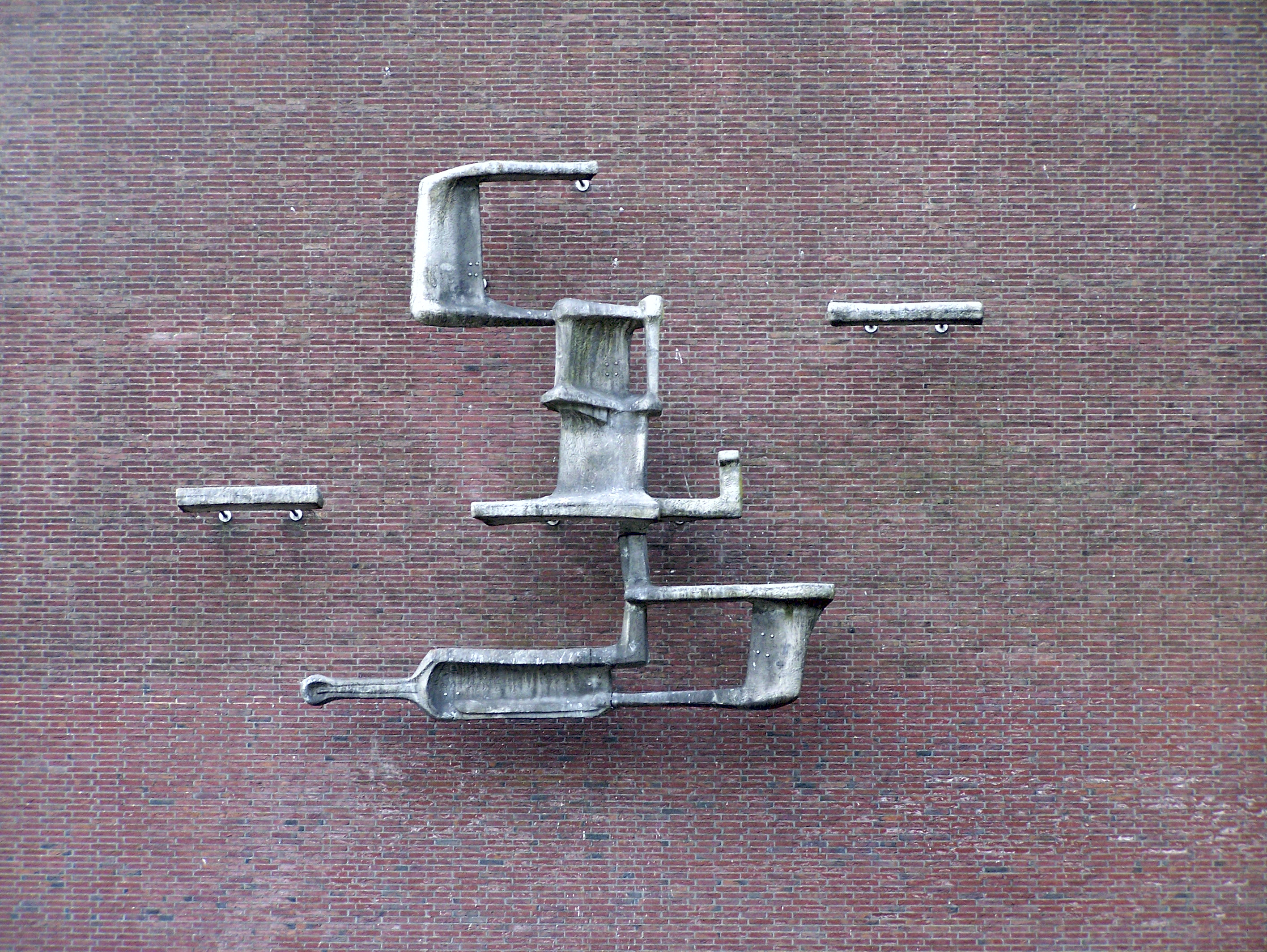 Sculpture "Energie en tijd" (Energy and time) by Hans Verhulst in 1962. Placed at the sidewall of the Electrical substation at the Marnixstraat (end of the Lauriergracht) in Amsterdam.